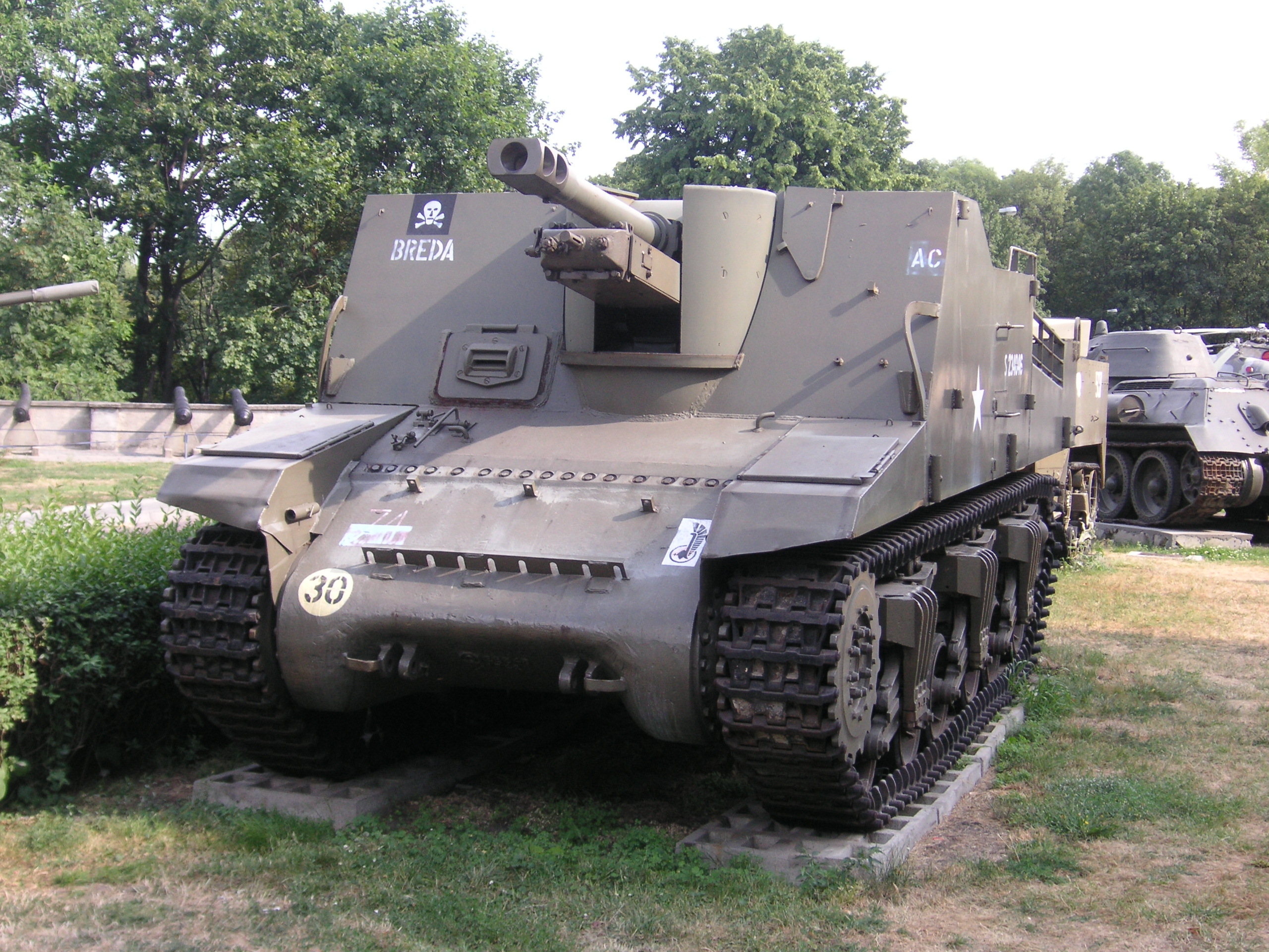 Sexton SP gun bearing markings of the Polish 1st Armoured Division, Polish Army Museum in Warsaw.